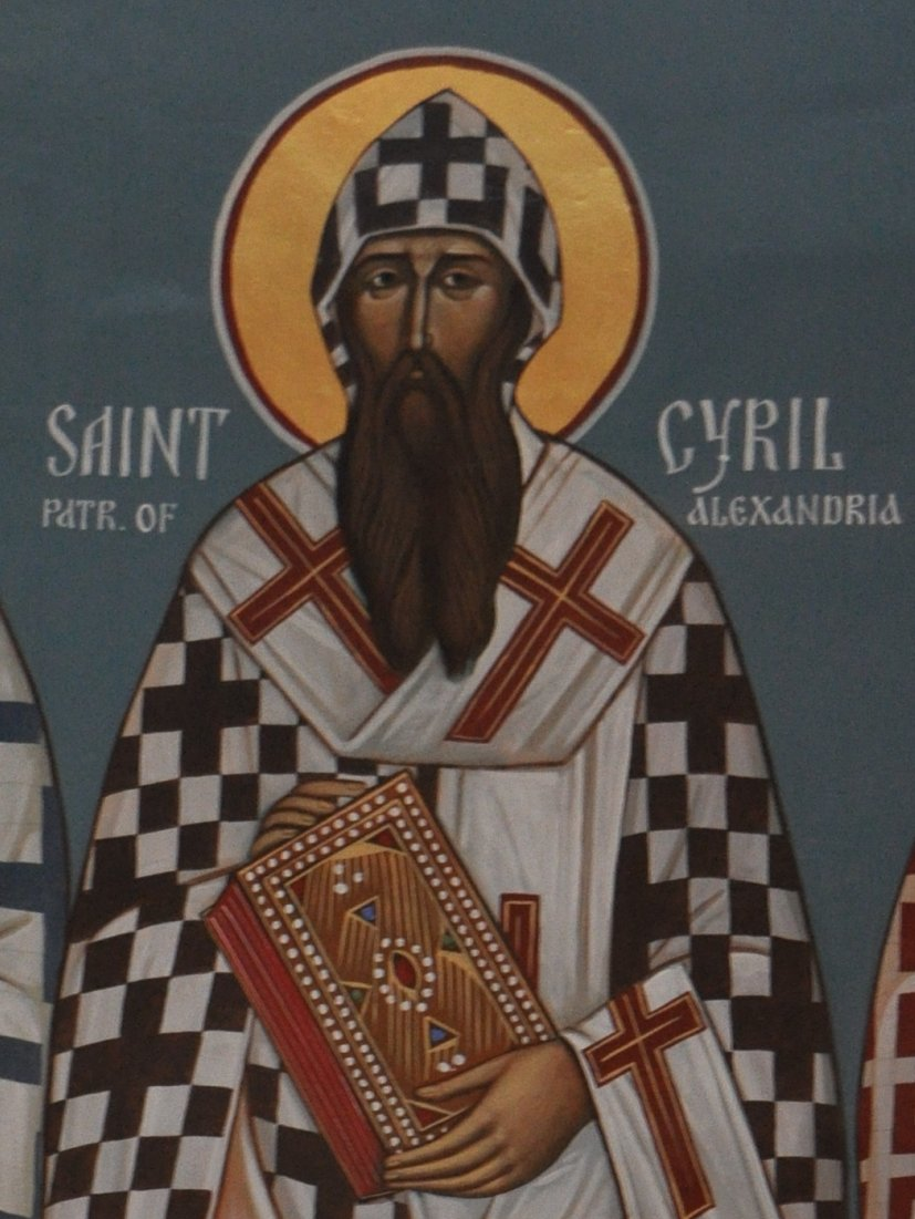 Icon St. Cyril of Alexandria